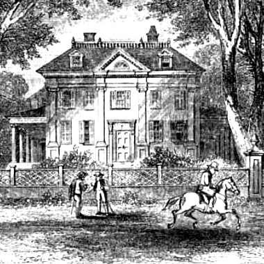 Engraving labeled as George Washington's "Headquarters, Cambridge 1775" - a building which later became the home of poet Henry Wadsworth Longfellow, now known as the Longfellow National Historic Site. Image from Homes of American Statesmen: With Anecdotical, Personal, and Descriptive Sketches, by Caroline M. Kirkland, Charles F. Briggs, Parke Godwin, Richard Hildreth, Edward William Johnston. Published by G. P. Putnam and co., 1854.